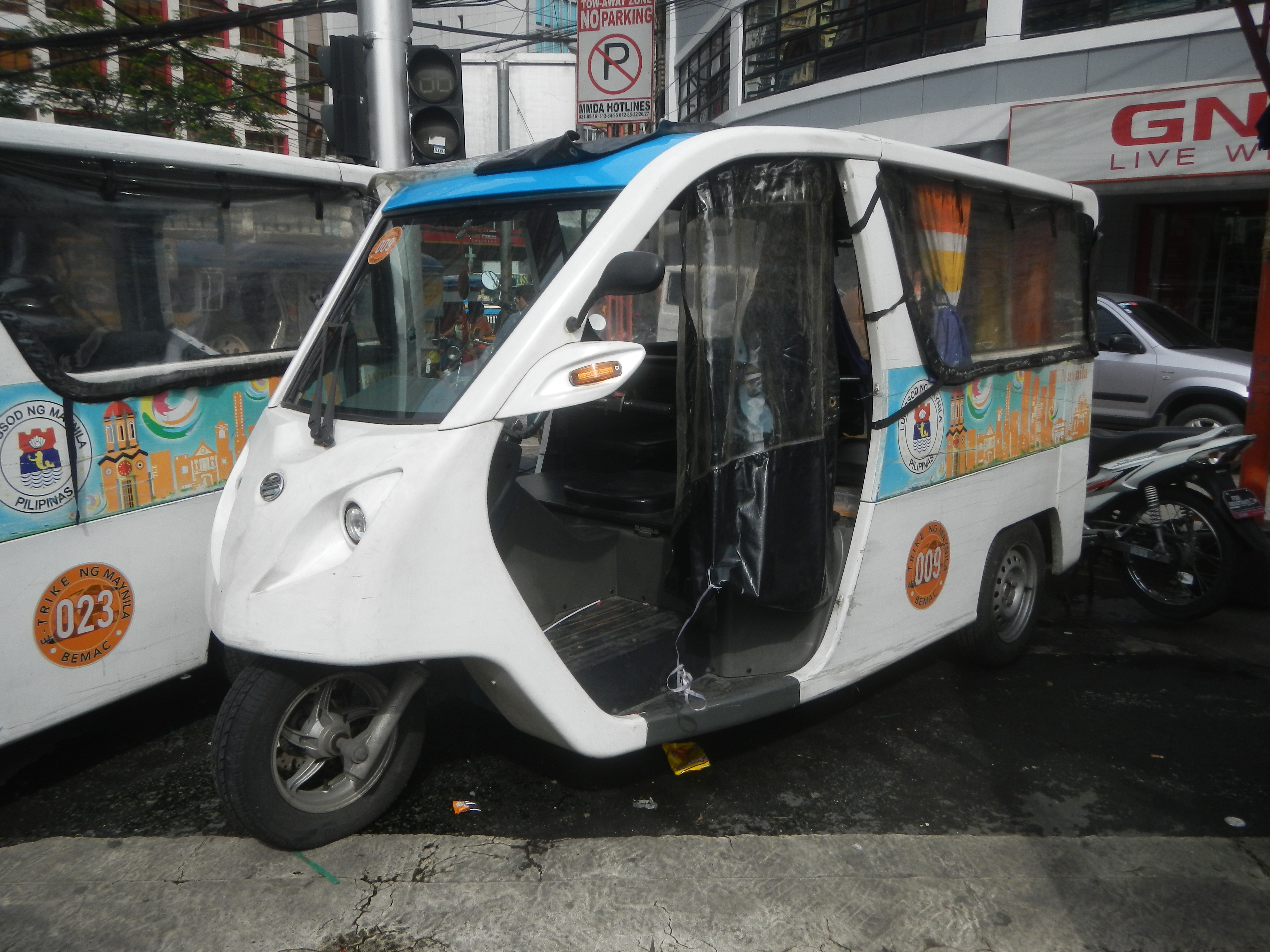 E-Trike Charging Station - Binondo; San Fernando Bridge & Estero de Binondo; San Fernando Street; Barangay 287, Zone 27, District III, Binondo, Manila; Manila Chinatown Charity Foundation, Inc. - Binondo List of Cultural Properties of the Philippines in Metro Manila, Binondo, Quintin Paredes Street corner Ongpin Street, Binondo, Manila, Legislative districts of Manila Barangays 281, 282, 283, 284, 285 & 286, Zone 26, 287, Zone 27, Binondo-San Nicolas, Manila; Barangays 288 Zone 27, & 295 and 296, Zone 28, 3rd District, Binondo, Manila, City of Manila (Note: Judge Florentino Floro, the owner, to repeat, Donor Florentino Floro of all these photos hereby donate gratuitously, freely and unconditionally all these photos to and for Wikimedia Commons, exclusively, for public use of the public domain, and again without any condition whatsoever).